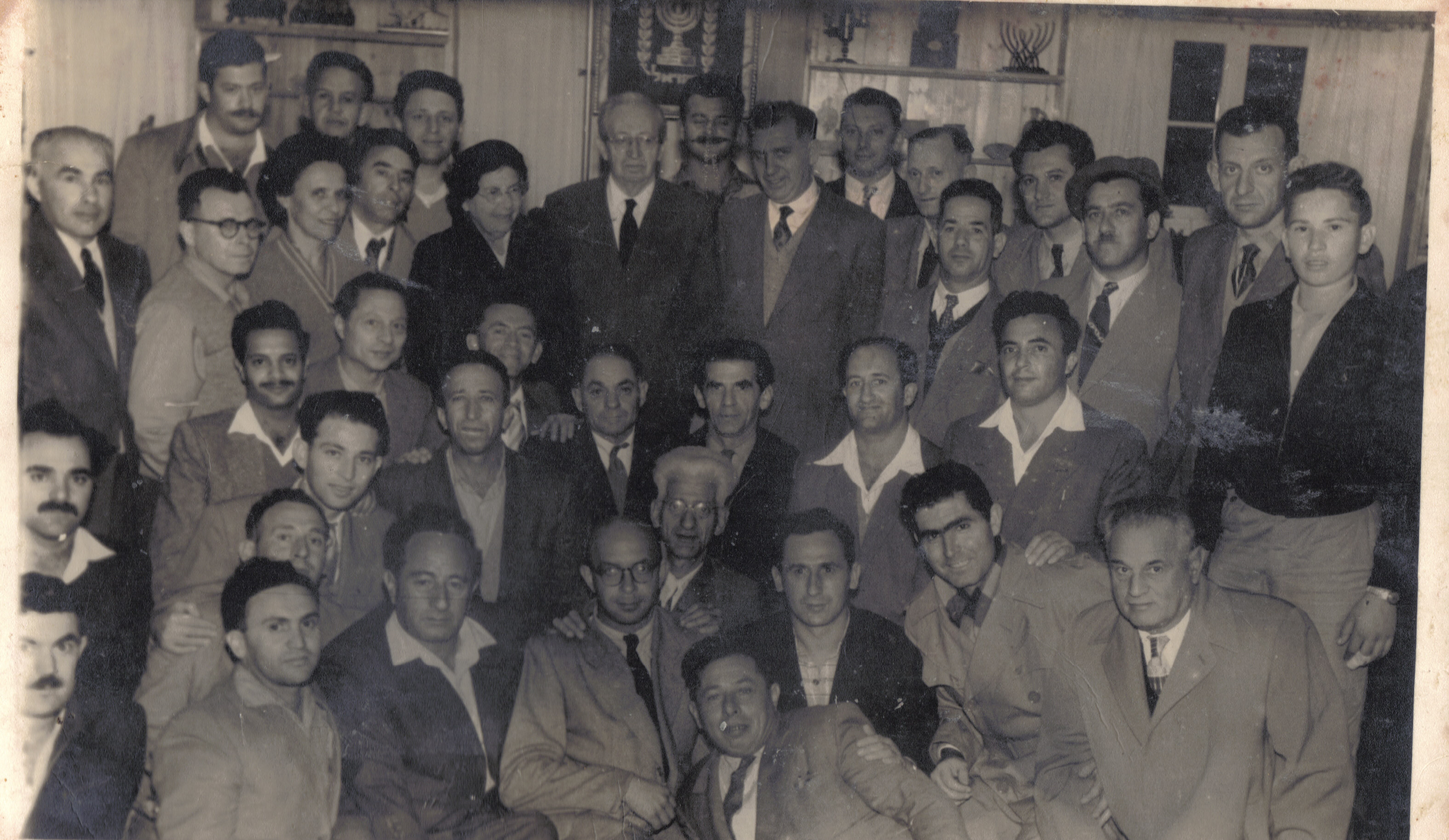 People of Israel:Yitzhak Ben-Zvi - Location:Jerusalem